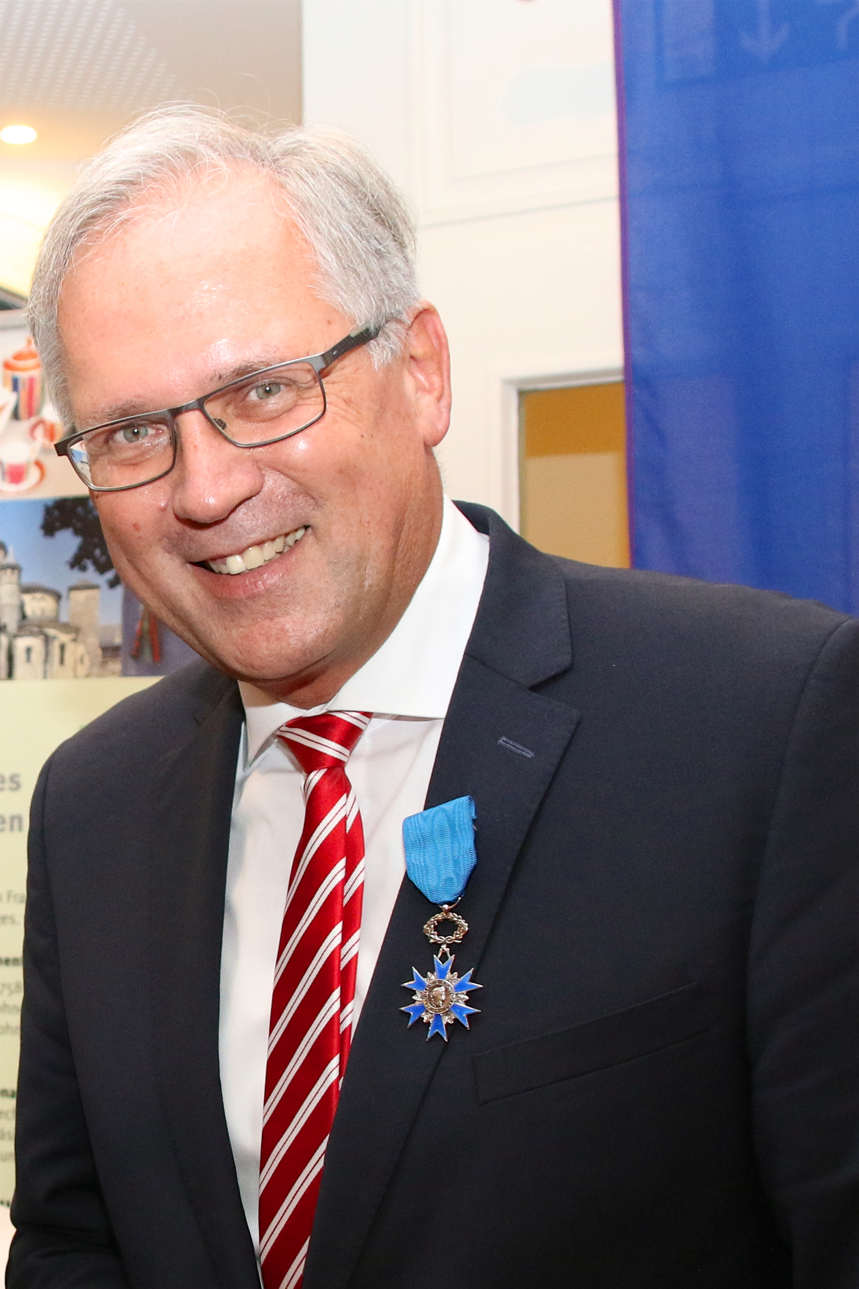 President of the Middle-Frankonian Parliament Richard Bartsch with the Frech Ordre national du Mérite